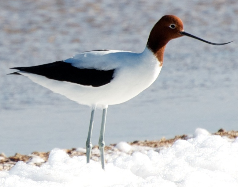 Red-necked Avocet, seen on Rottnest Island.